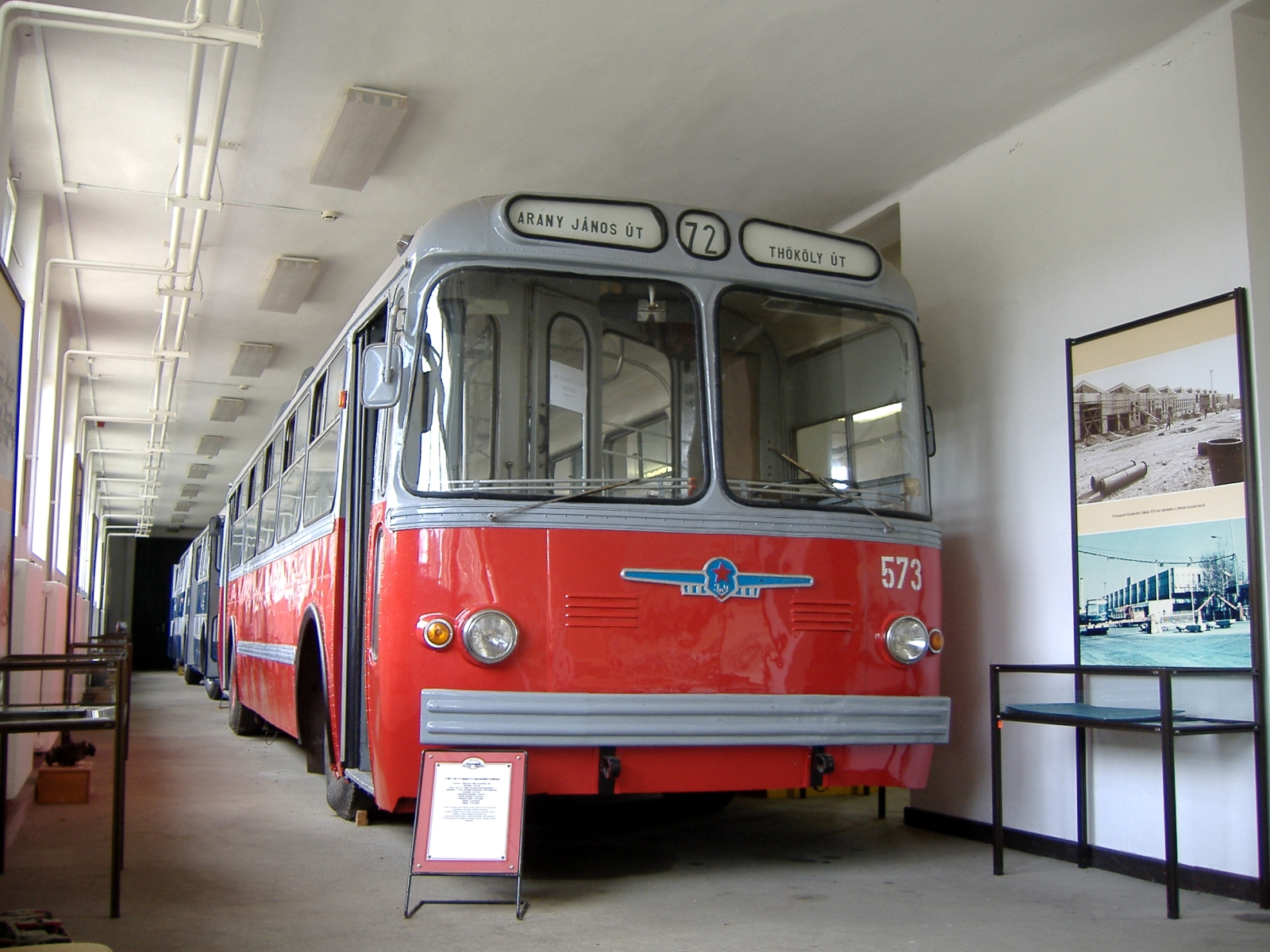 The museum trolleybus ZiU-5 in Budapest, Hungary